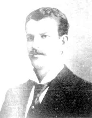 Photograph of Mick Grace featured in Punch Newspaper in 1899